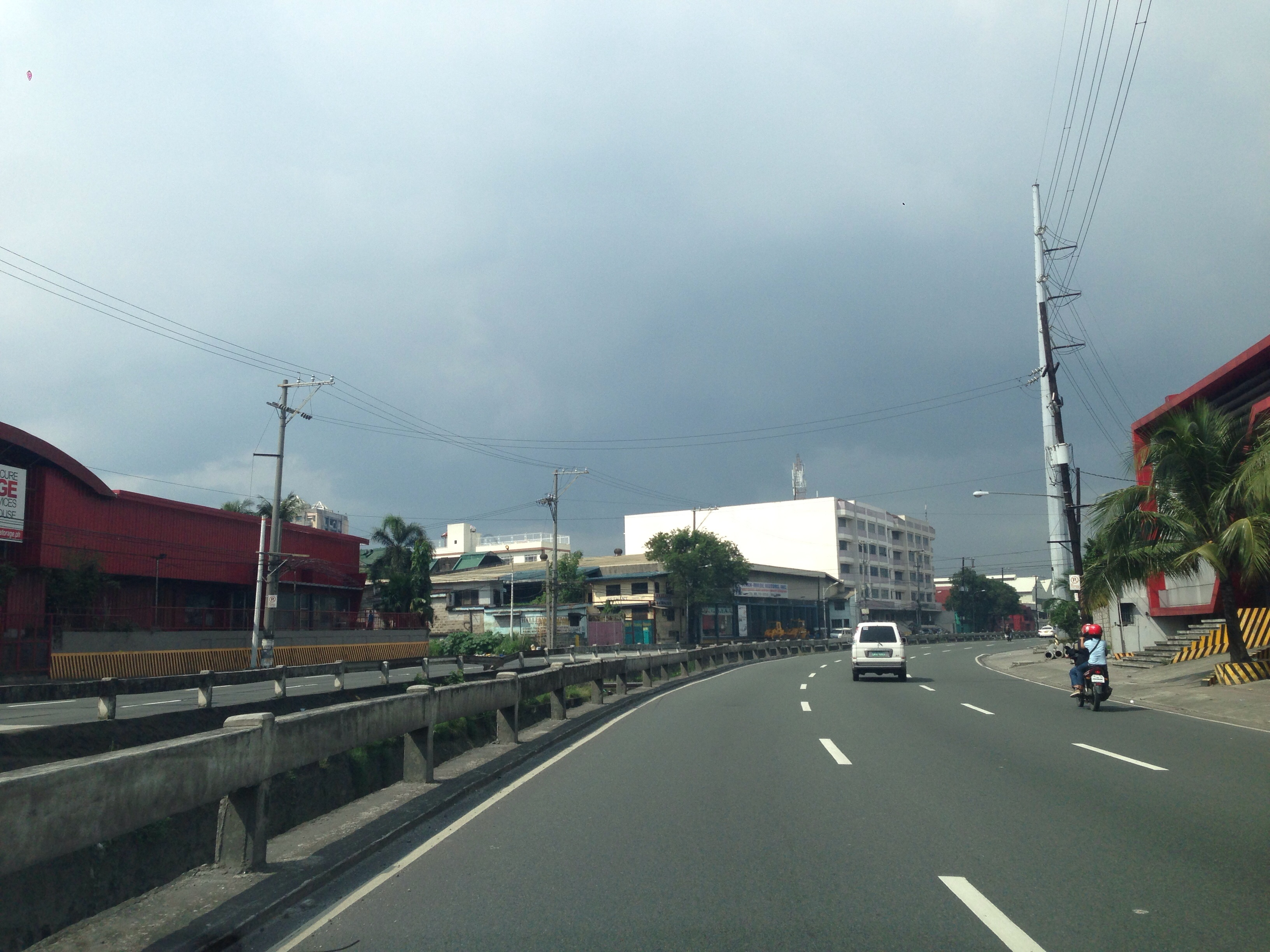 On the northbound lane of Gregorio Araneta Avenue in the Santa Mesa Heights area of Quezon City, Metro Manila, Philippines near Del Monte Avenue